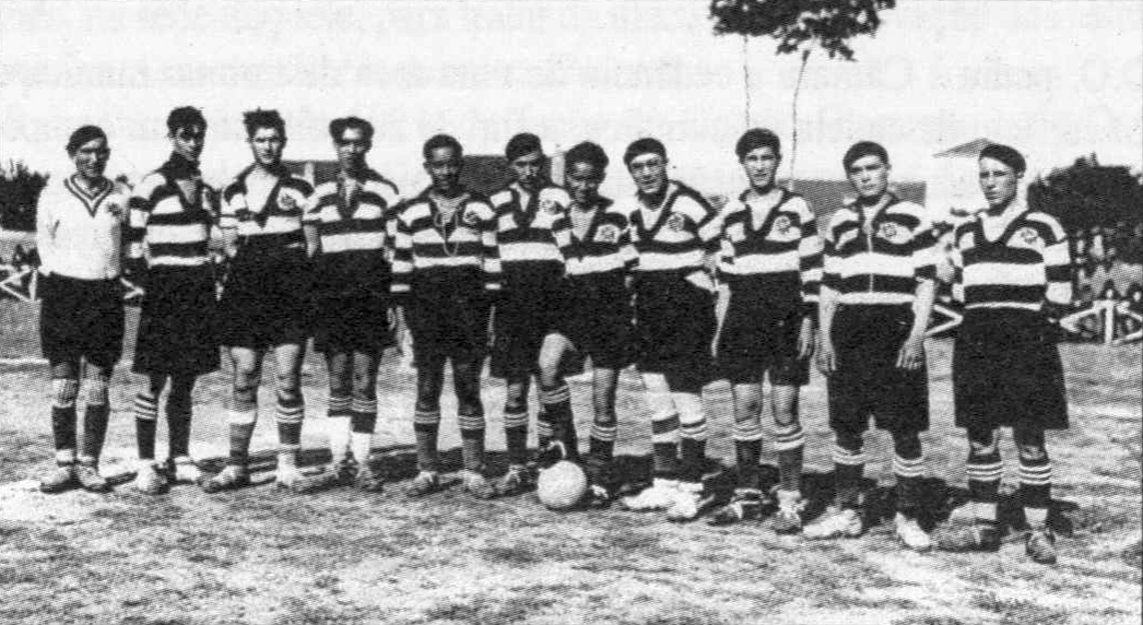 A.D. Ovarense squad, 1930-1931 Season.